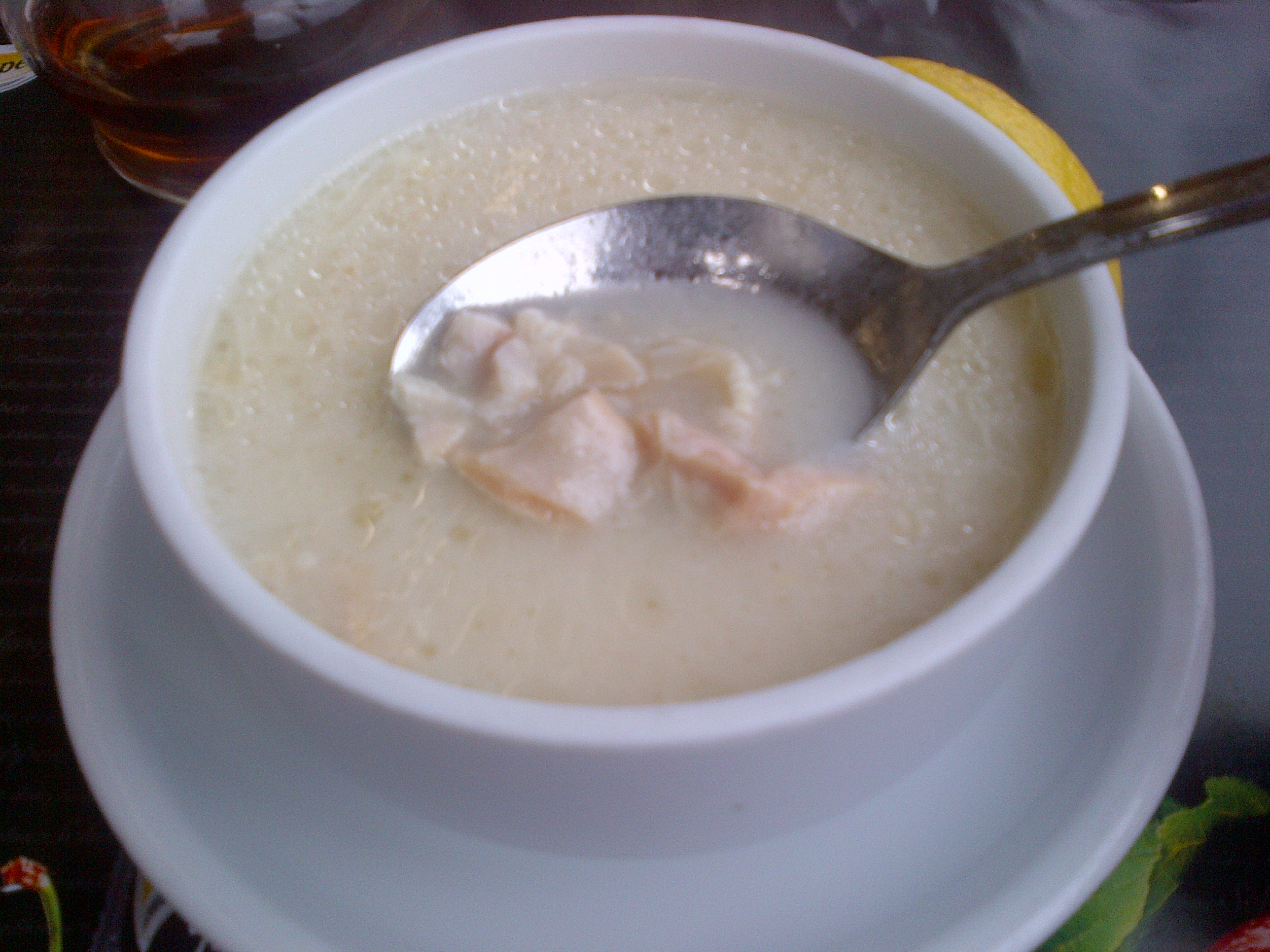 Turkish tripe soup (details).